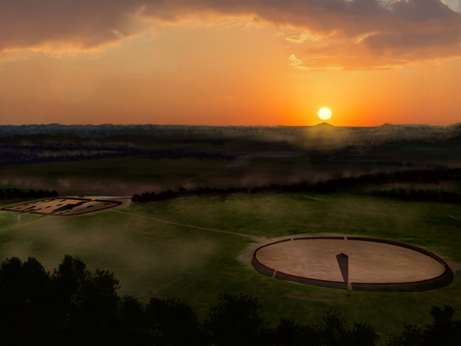 Artists conception of the summer solstice sunrise at the Ohio Hopewell culture earthworks Shriver Circle and Mound City near modern Chillicothe, Ohio. Digital illustration, all rights held by the artist, Herb Roe © 2019